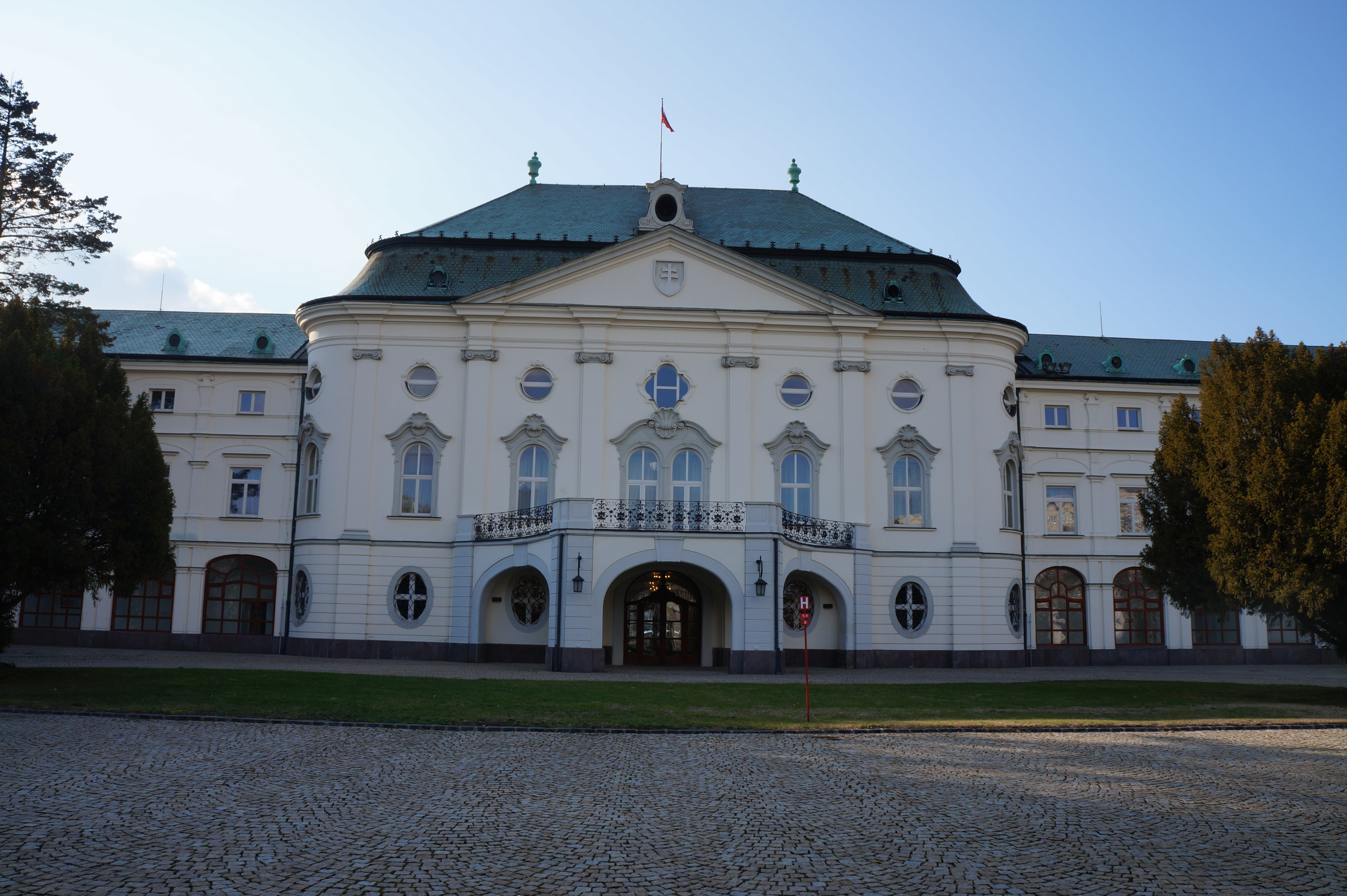 Government Office (Úrad vlády), Bratislava